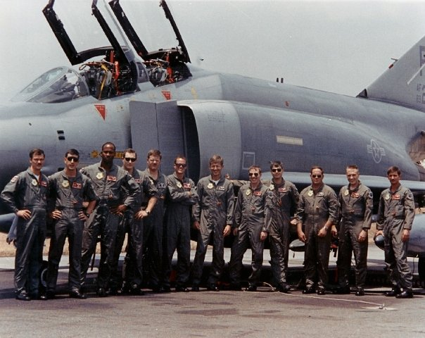 Operation DESERT STORM. 90 TFS Wild Weasel crews participated in combat operations while attached to the 81 TFS. This group was affectionately known as the "Philippine Expeditionary Force".